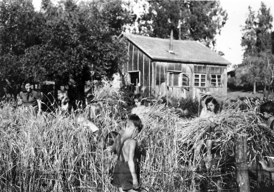 Gan-Samuel - children harvest wheat 1940-5, Education in Israel